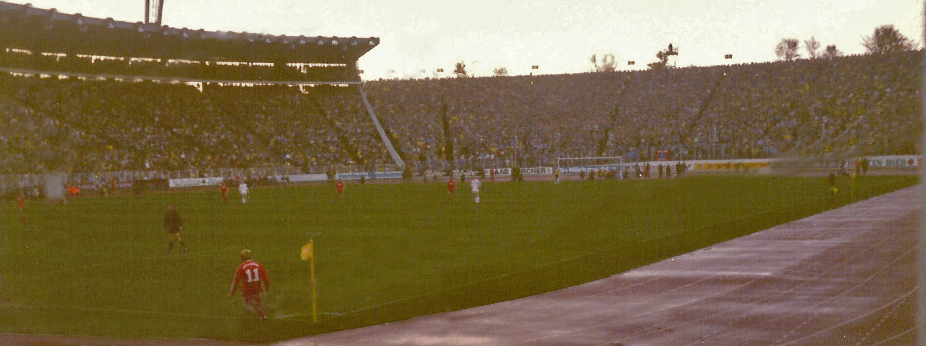 Hamburger SV vs. FC Bayern München at Hamburg Volksparkstadium in 1981 (Result 4:1)